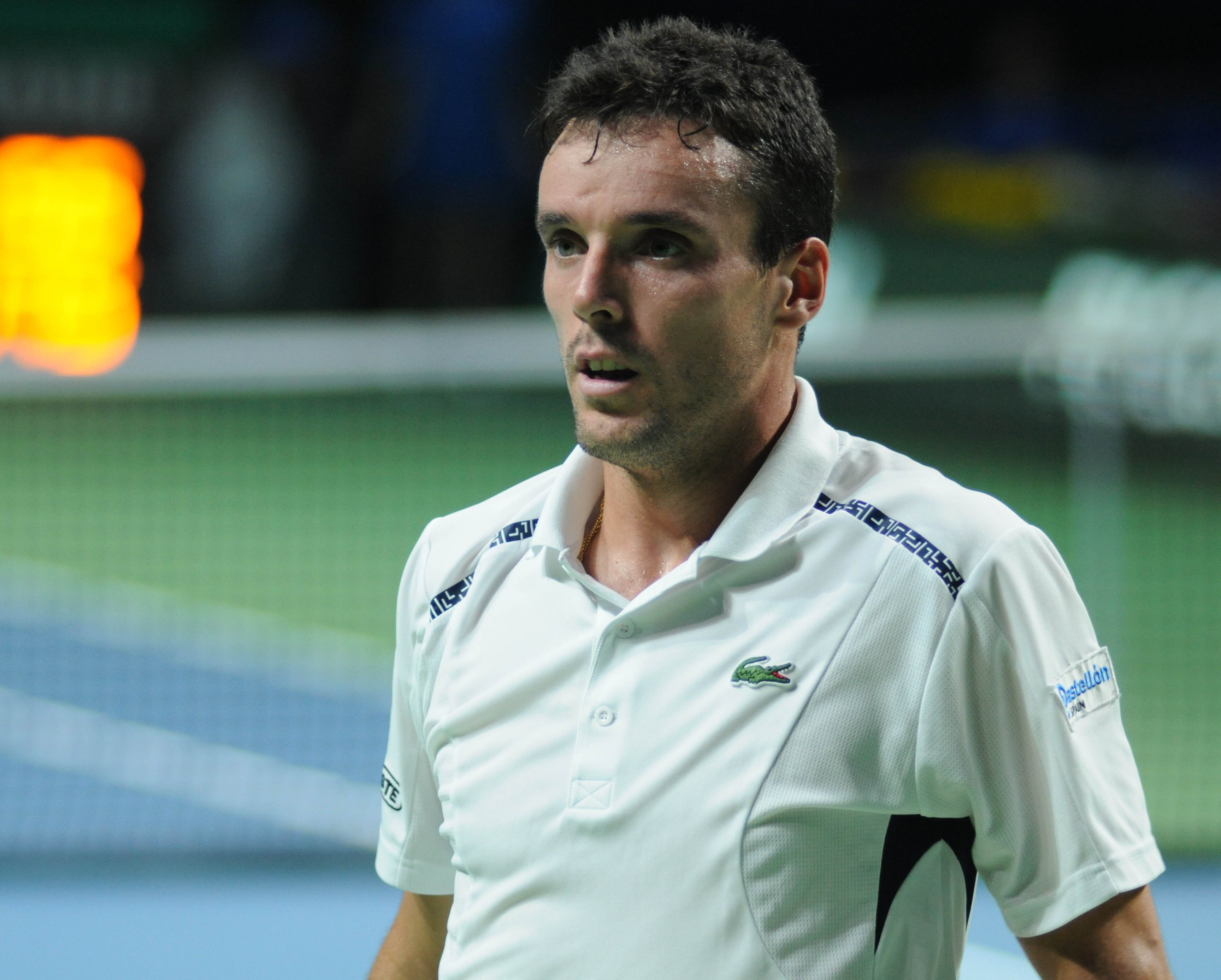 Roberto Bautista Agut at the 2014 Kremlin Cup